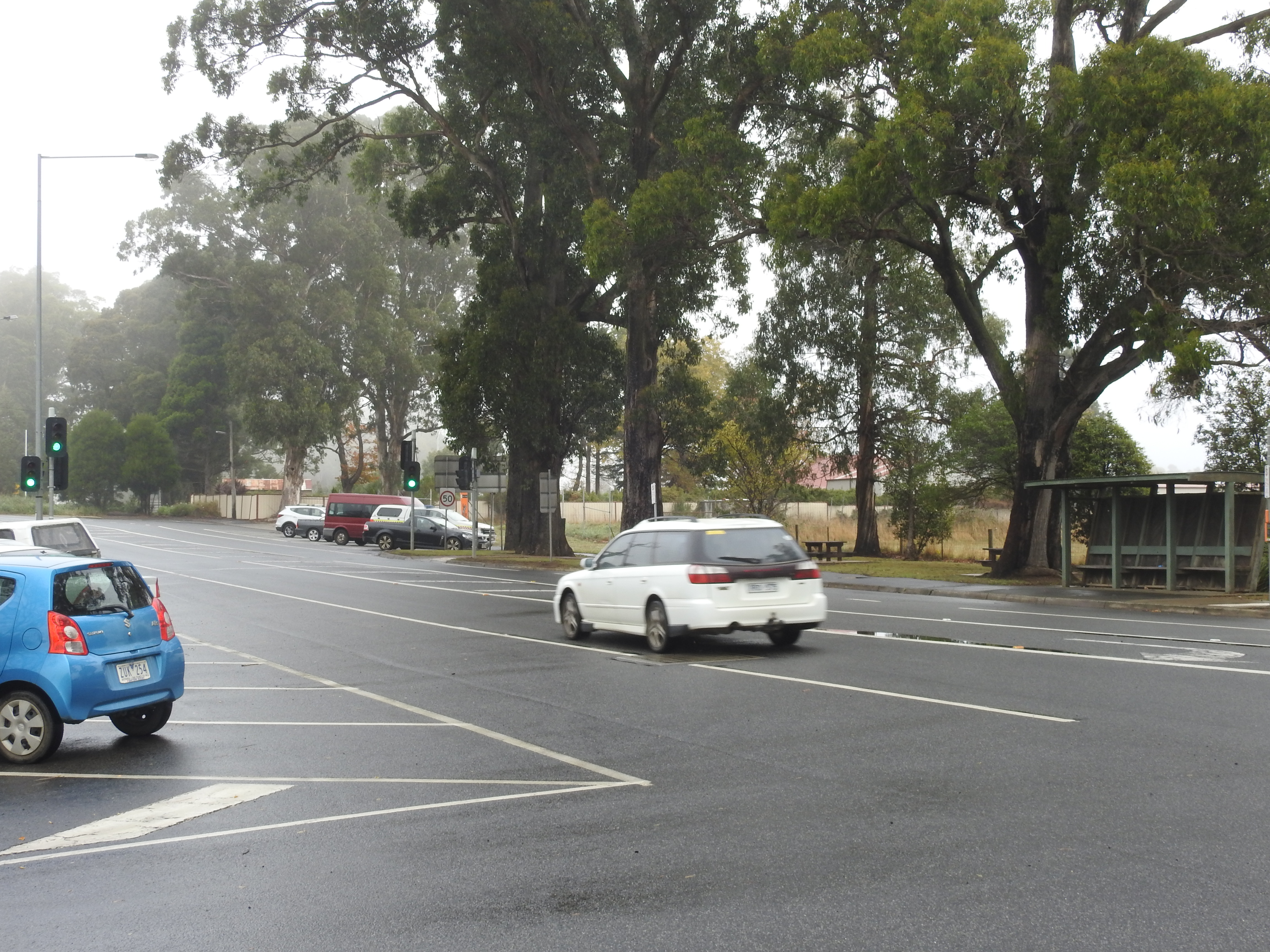 The Main street of Kinglake, following the February 7 2009 bushfires.